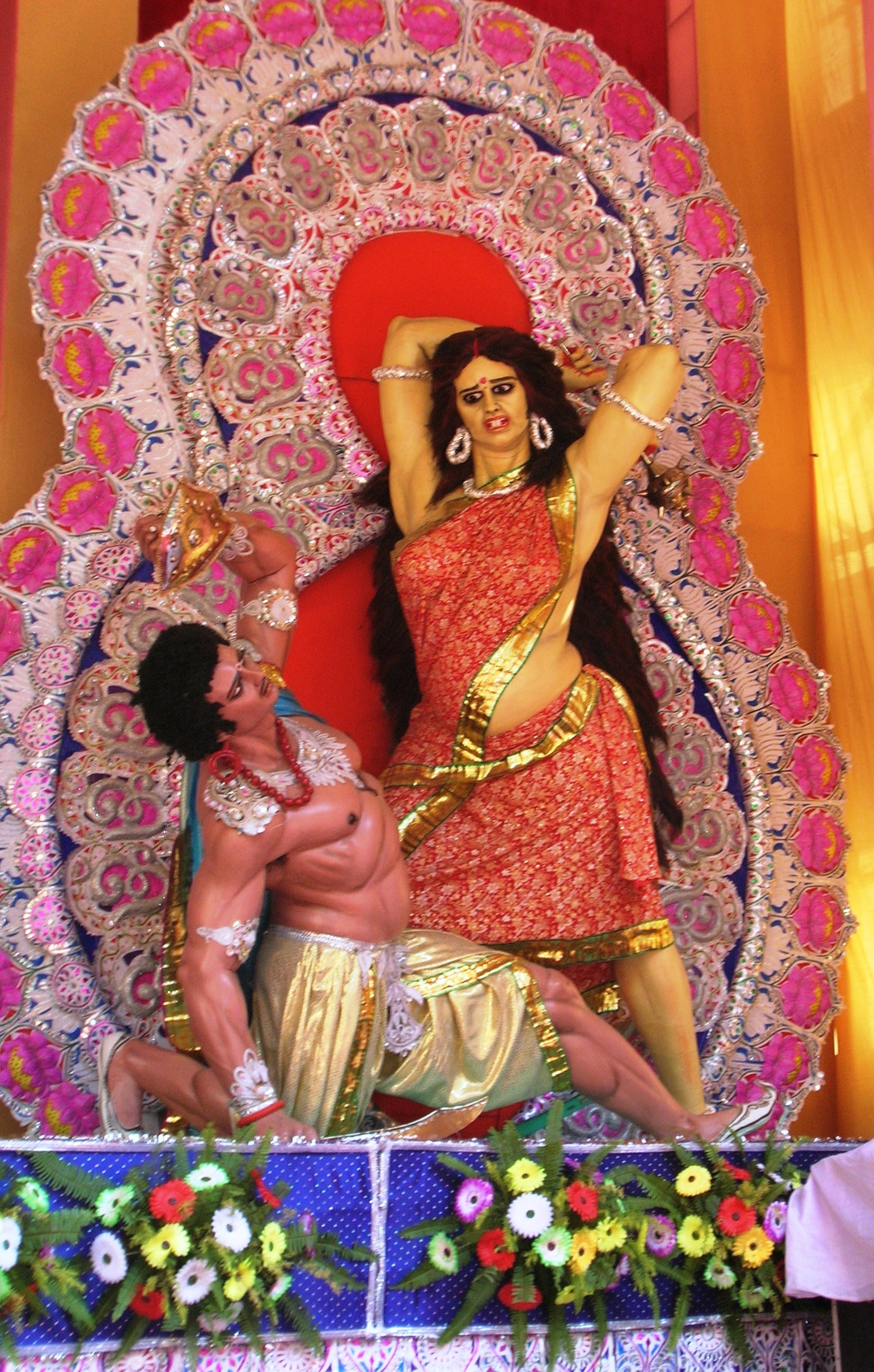 Dakini at famous Kali Puja of Fatakeshto at Central Kolkata, 2010.